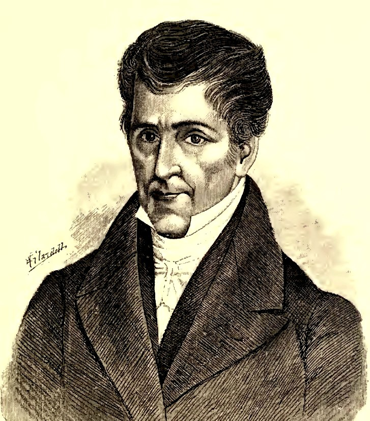 Image is the Public Domain because It first appeared in 1888. Book 'Americanos Celebres' by Baronesa Wilson